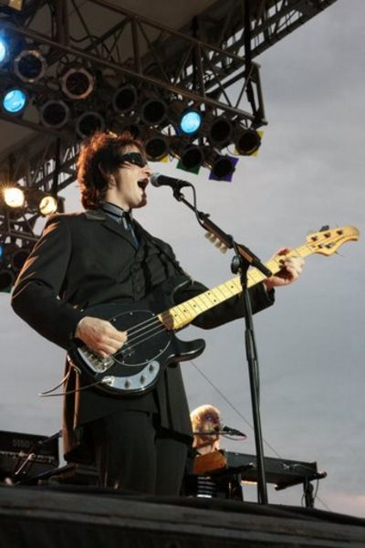 Atom Ellis with The New Cars